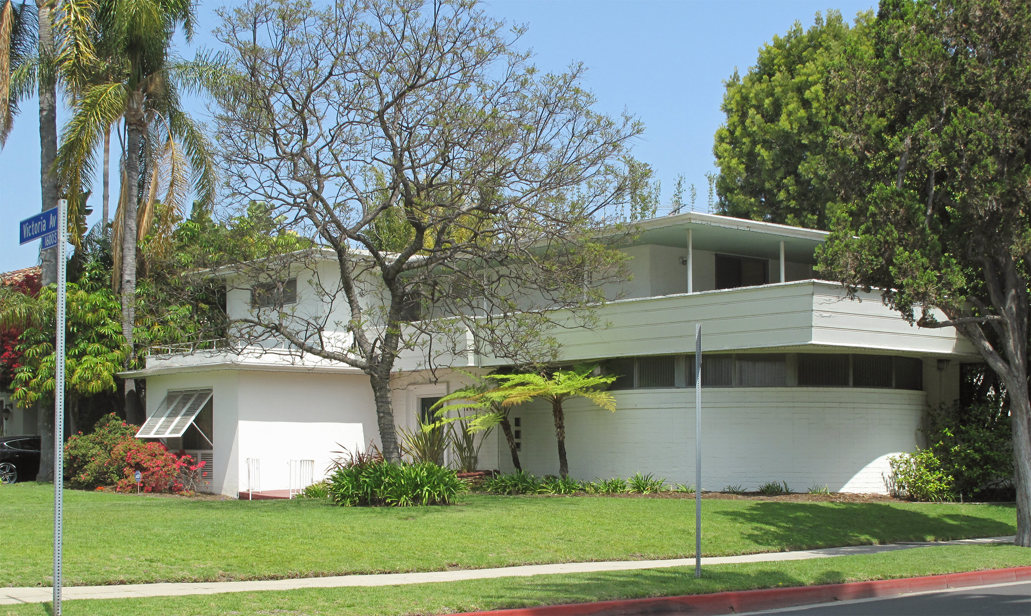 Paul R. Williams Residence — 1690 S. Victoria Avenue, Lafayette Square, Los Angeles. Designed by renowned architect Paul R. Williams in 1952, as his family's residence. A Los Angeles Historic-Cultural Monument.